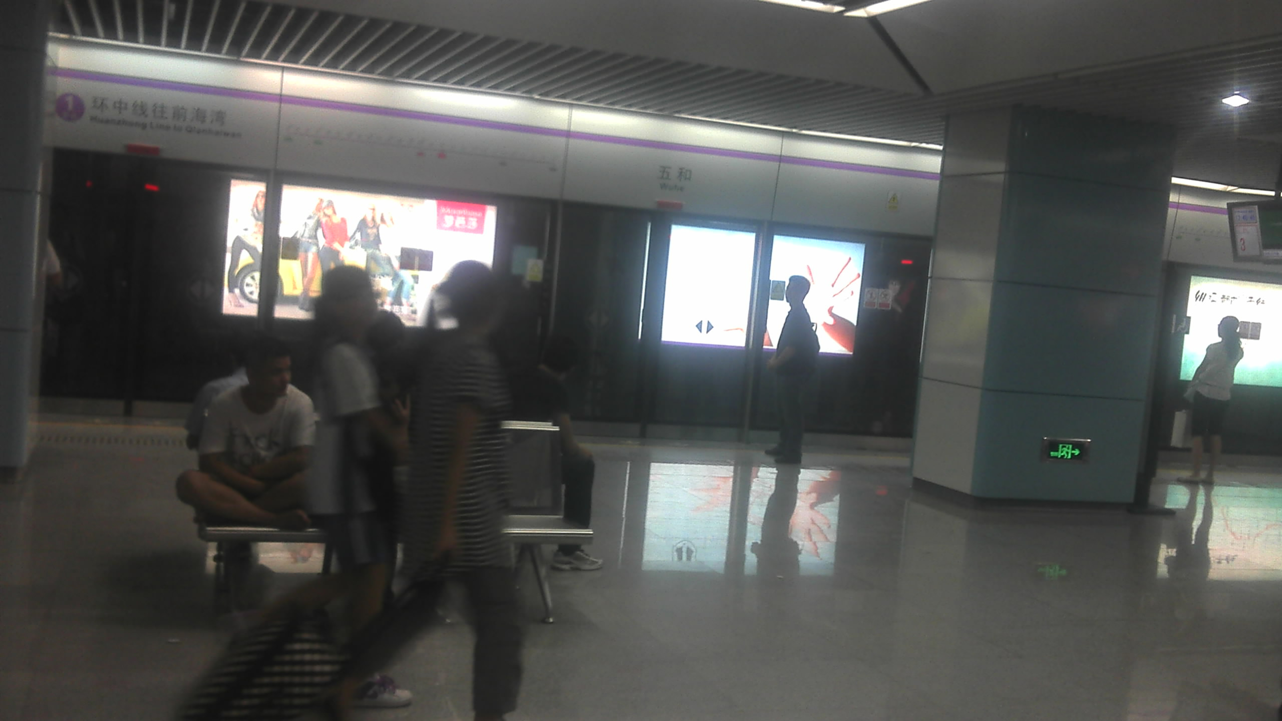 This photo was taken as Sept 30, 2011, Wuhe Station.